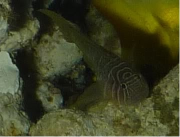 Goby fish Priolepis boreus